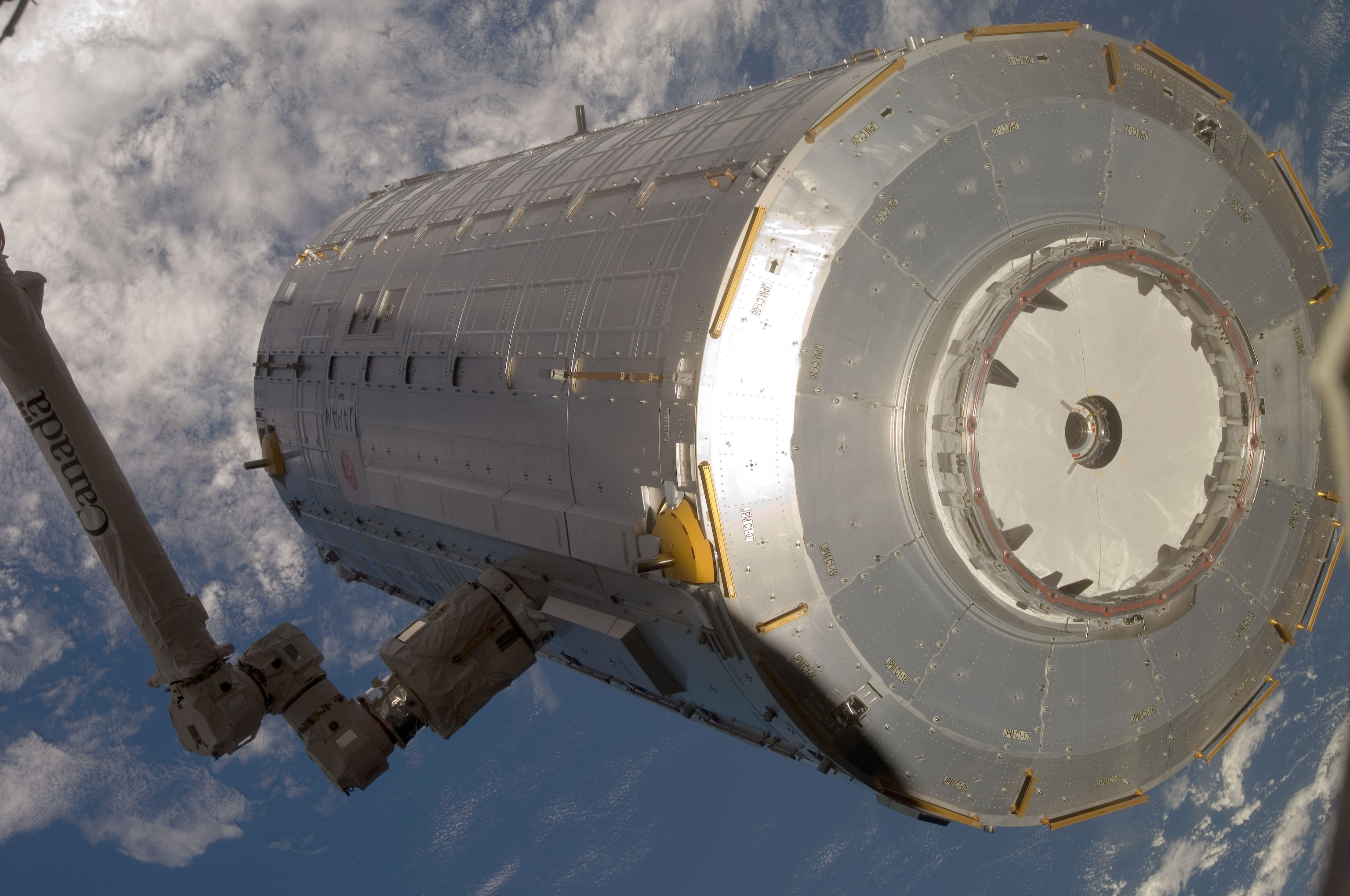 In the grasp of the station's robotic Canadarm2, the Kibo Japanese Pressurized Module (JPM) is moved from its stowage position in Space Shuttle Discovery's (STS-124) payload bay to the port side of the Harmony node of the International Space Station.